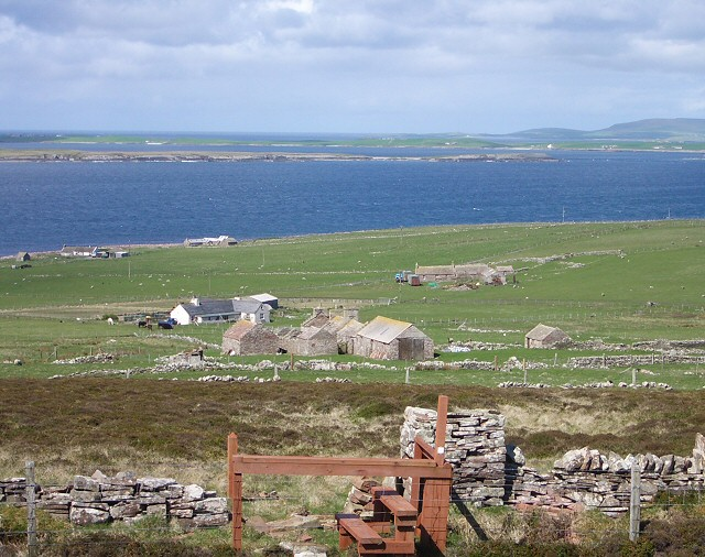 Stile on Vinquoy Hill. This stile leads downhill from the Heritage Walk on Eday to a renovated mill. Overlooking the Sound of Faray.